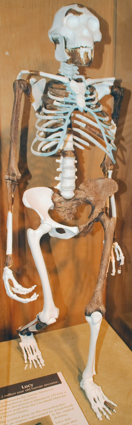 Museum skeleton of Lucy, Australopithecus afarensis mounted in walking position.